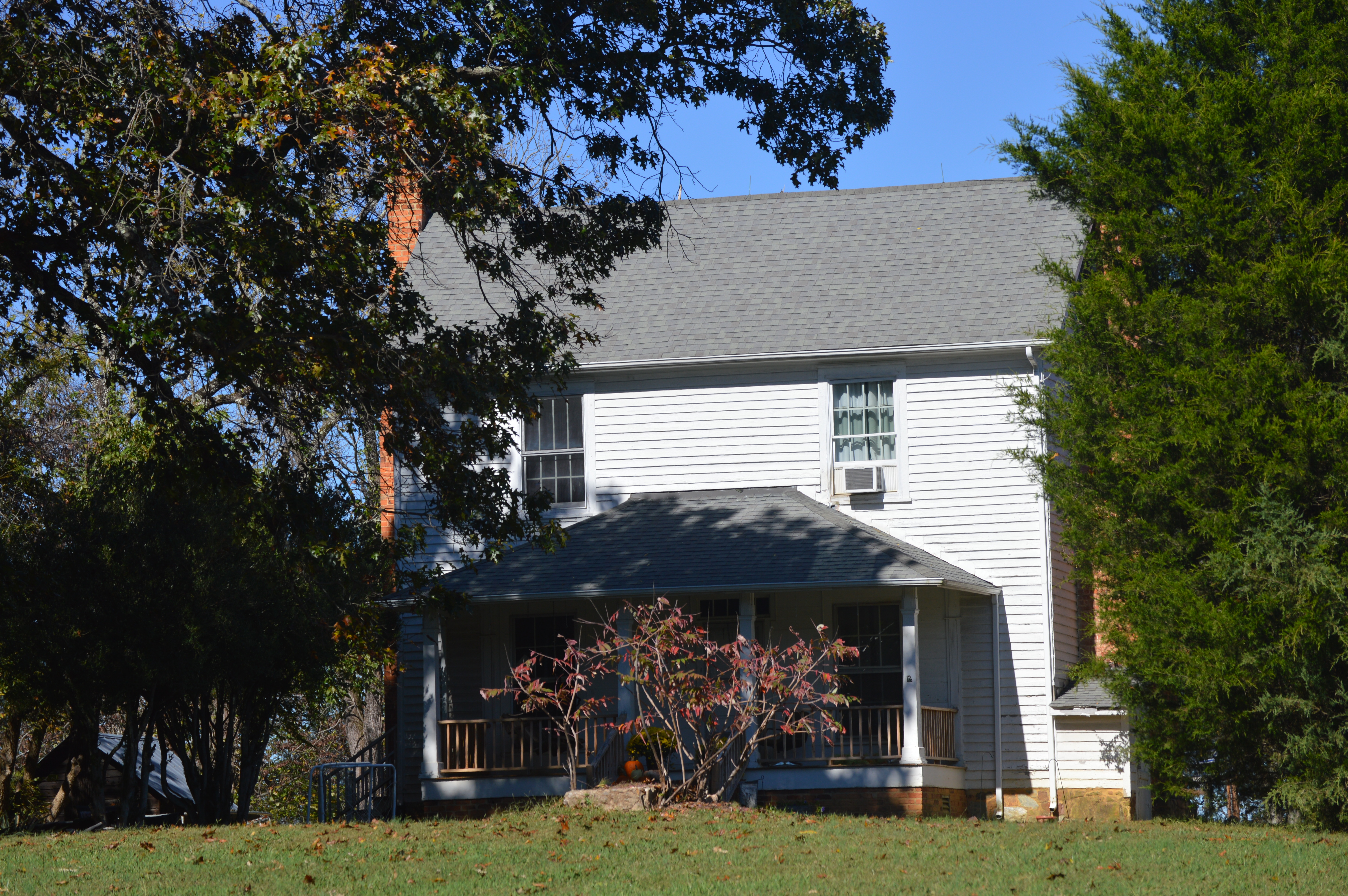 Front of the Holloway-Jones-Day House, located along U.S. Route 501 north of Roxboro in Person County, North Carolina, United States. Built in 1840, it is listed on the National Register of Historic Places.